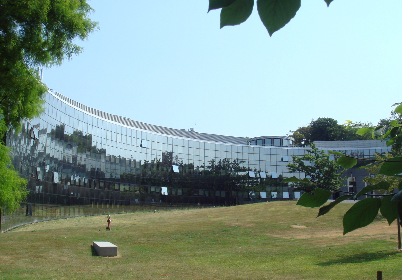 Edhec Business School Lille campus building